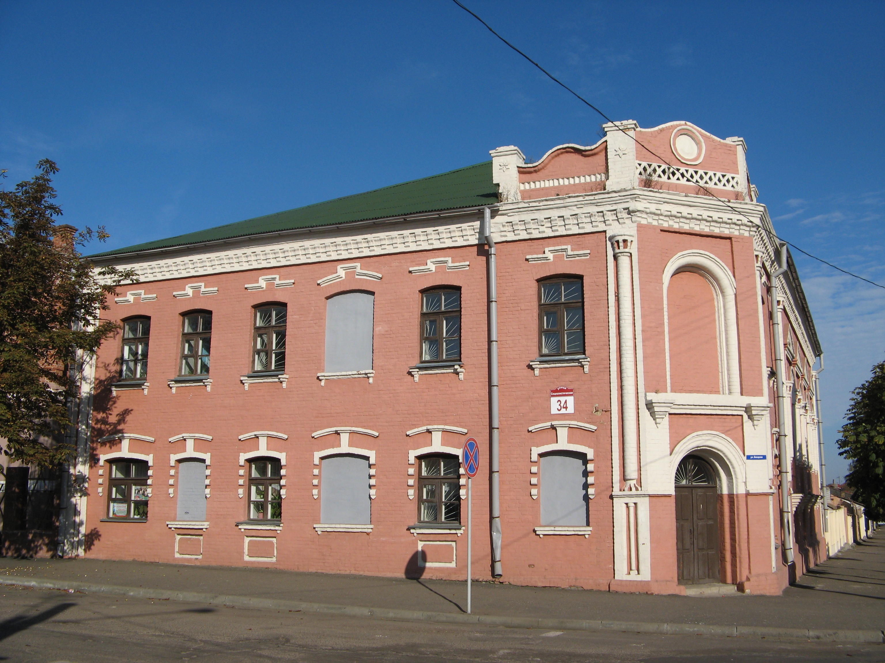 2nd Synagogue on Sacyjalistycznaja str